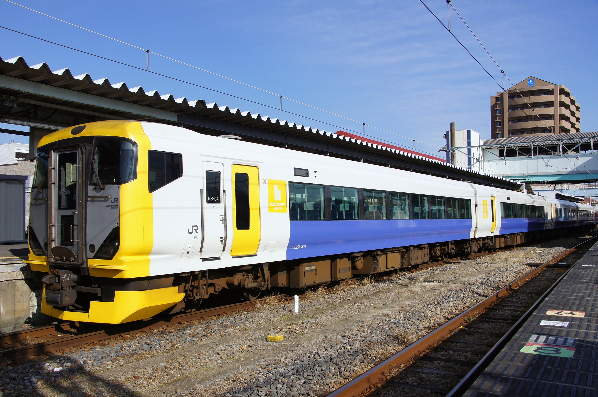 JR East E257-500 series EMU set NB-04 at Choshi Station on the Shiosai 12 limited express service to Tokyo